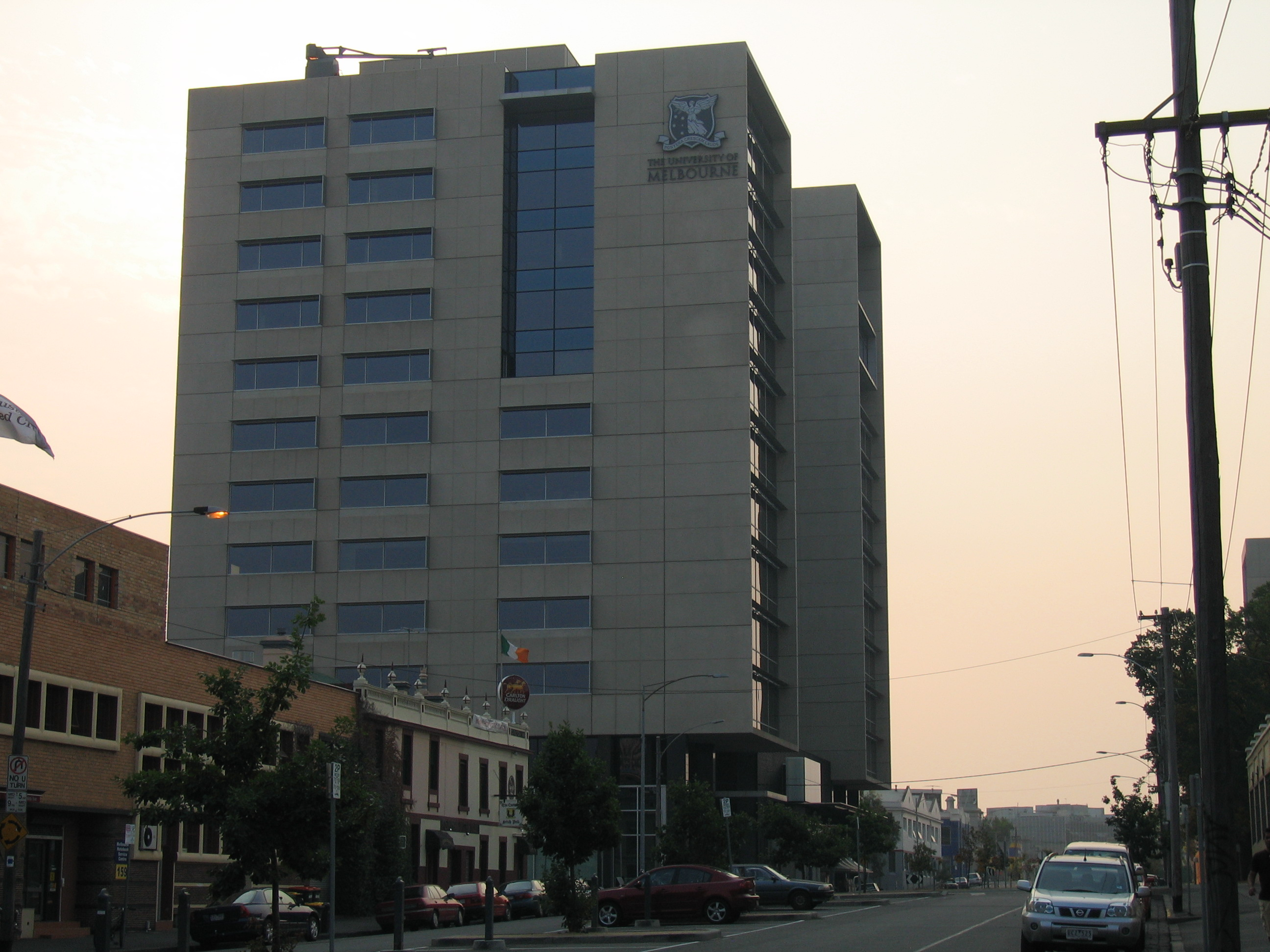 University of Melbourne Law School Building taken by me from Pelham St, Carlton.